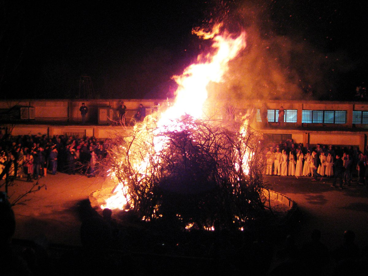 Sadeh in Markar (Tehran) 2011-01-31